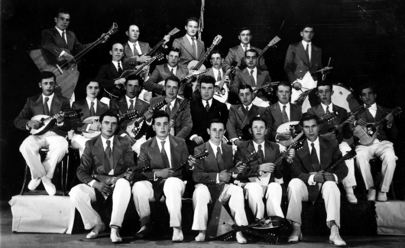 maccabi orchestra 1938 Netanya